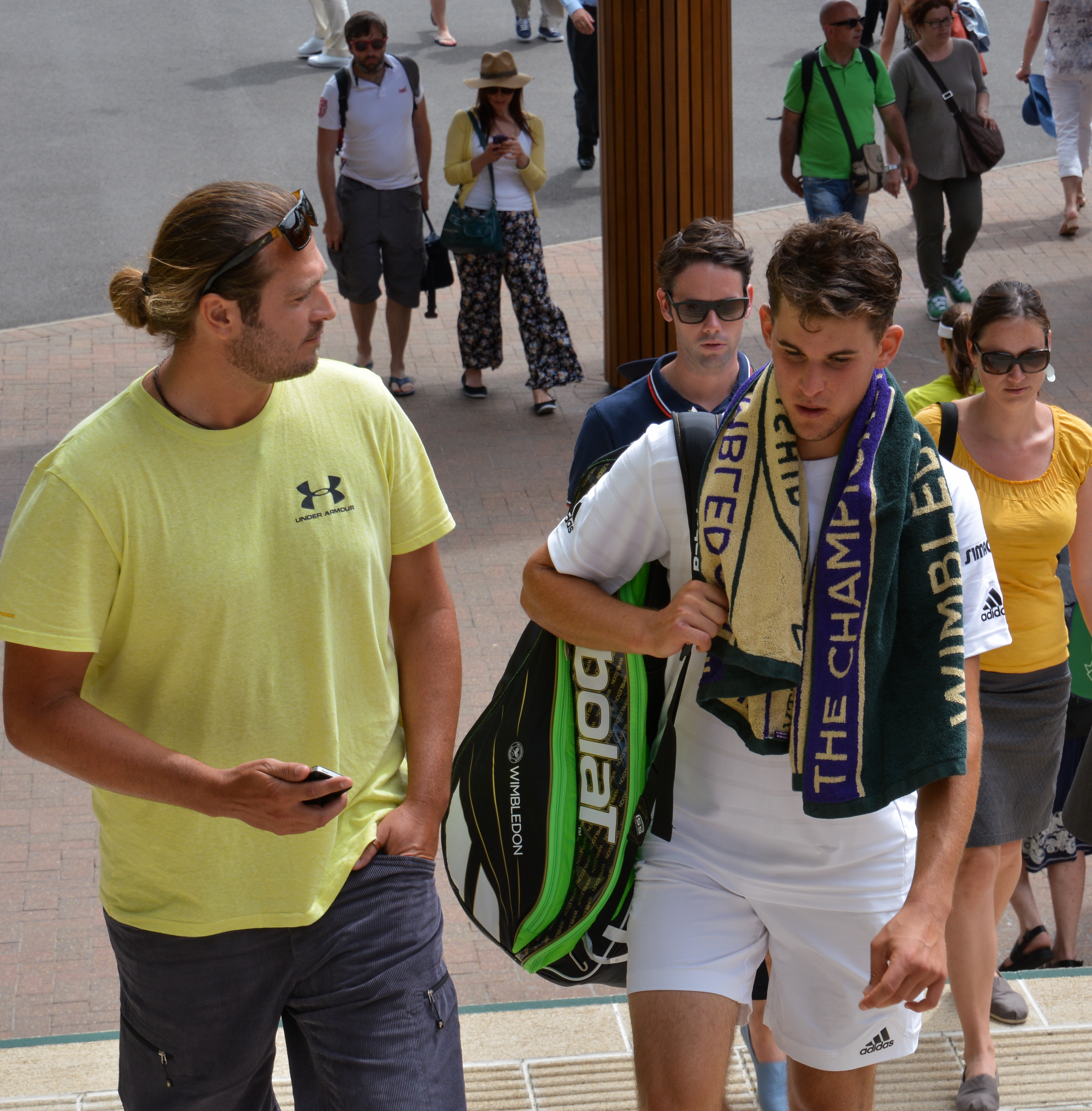 Dominic Thiem after winning his match